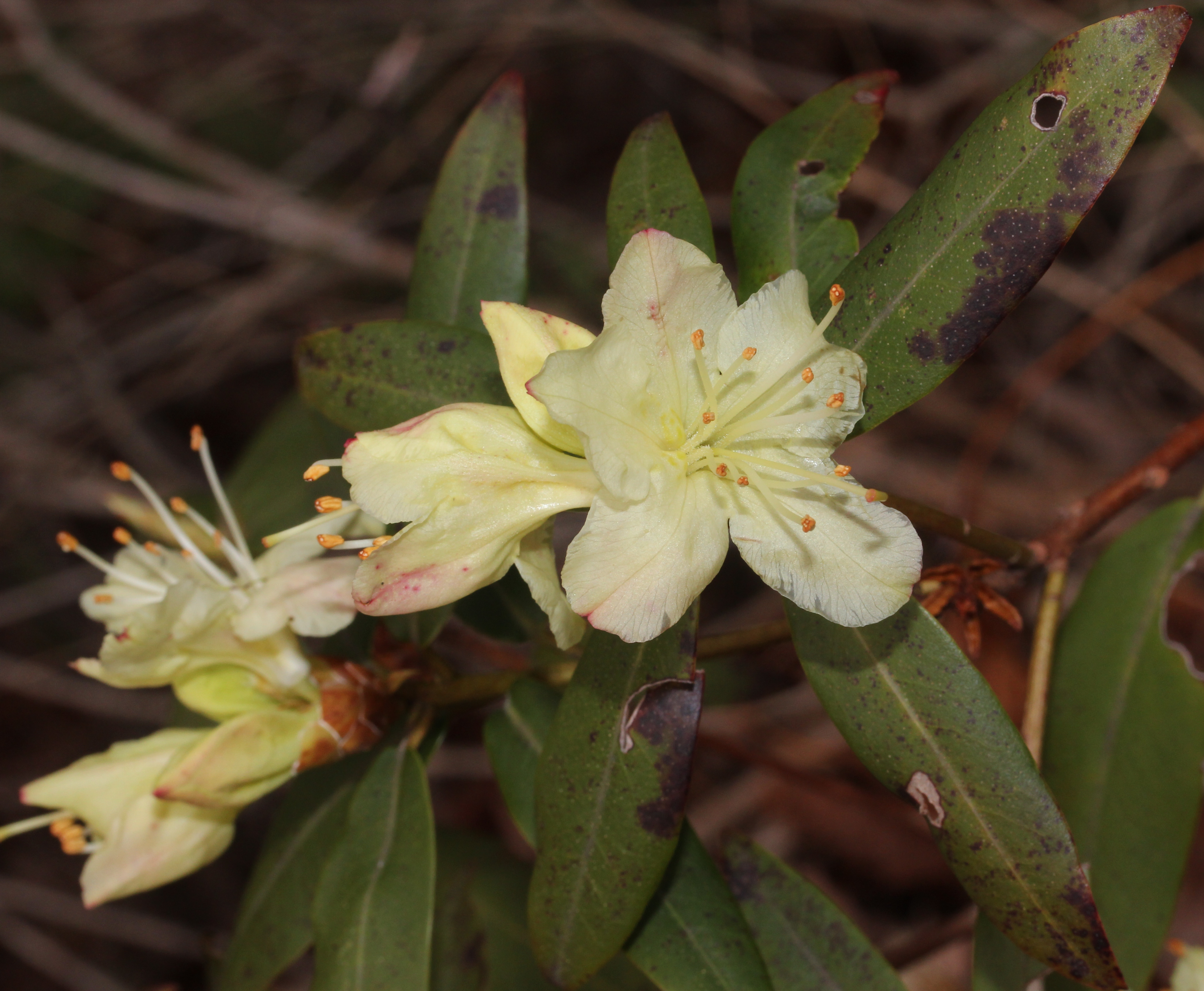 Rhododendron keiskei in Mount Dodo, Gifu city, Gifu prefecture, Japan.